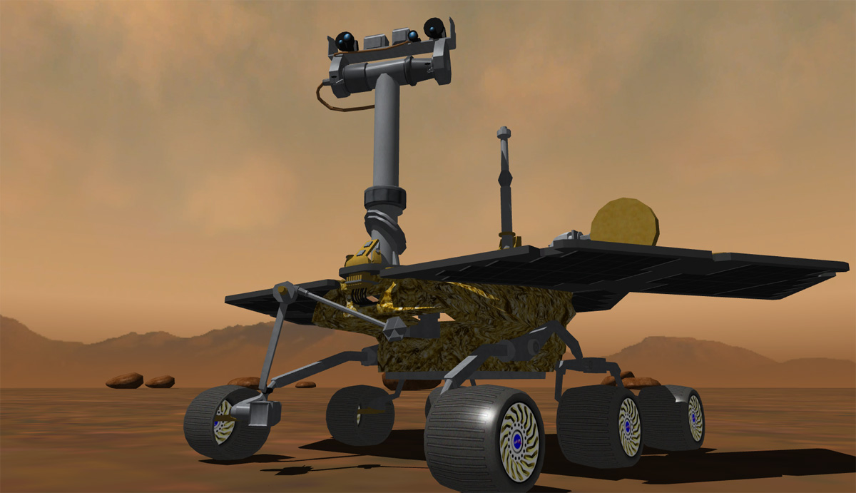 A Mars Rover robot simulated on MSRDS by SimplySim